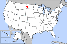 Location map of Theodore Roosevelt National Park — in North Dakota.